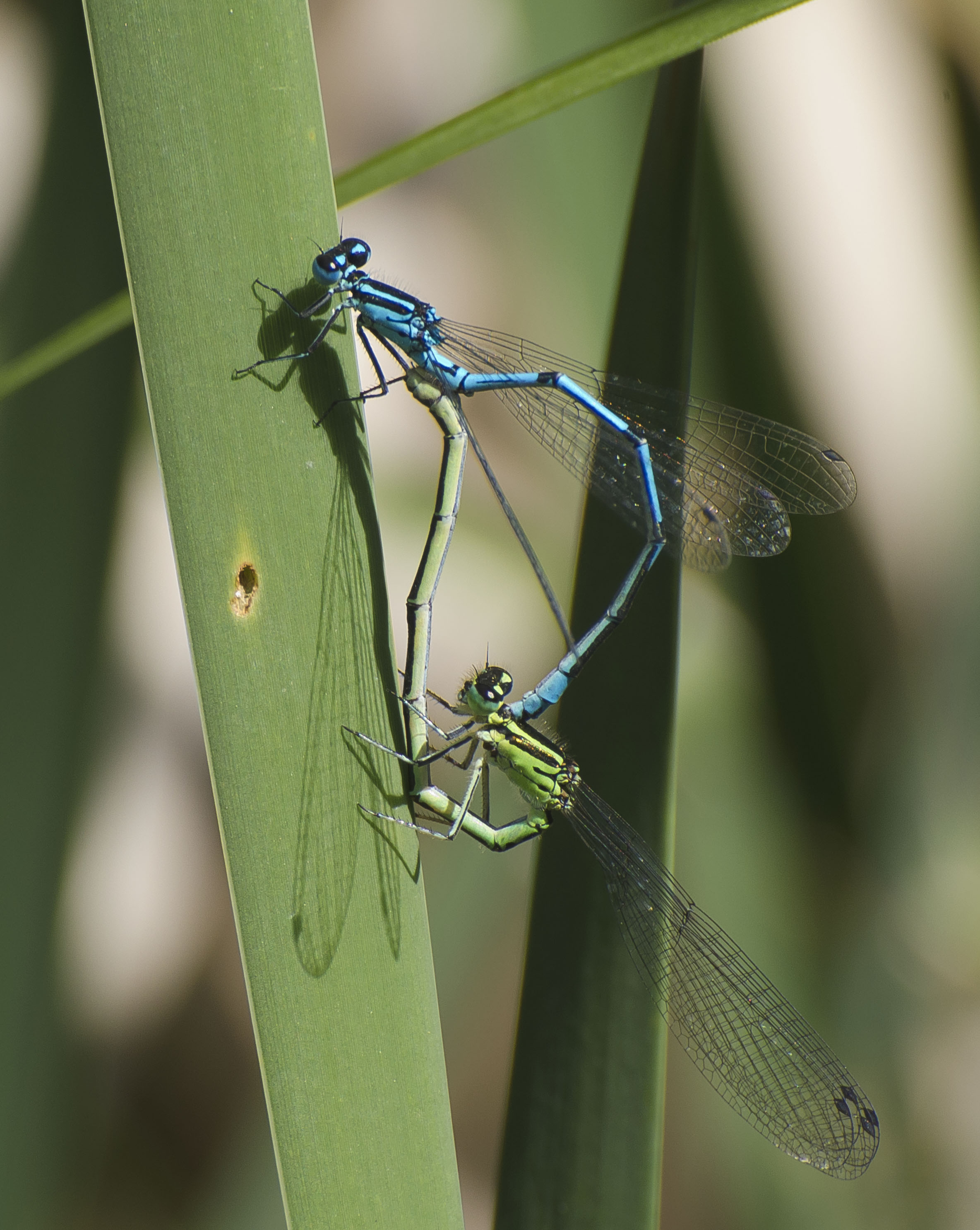 Azure damselfly (Coenagrion puella), forest pond near Stuttgart, Germany.